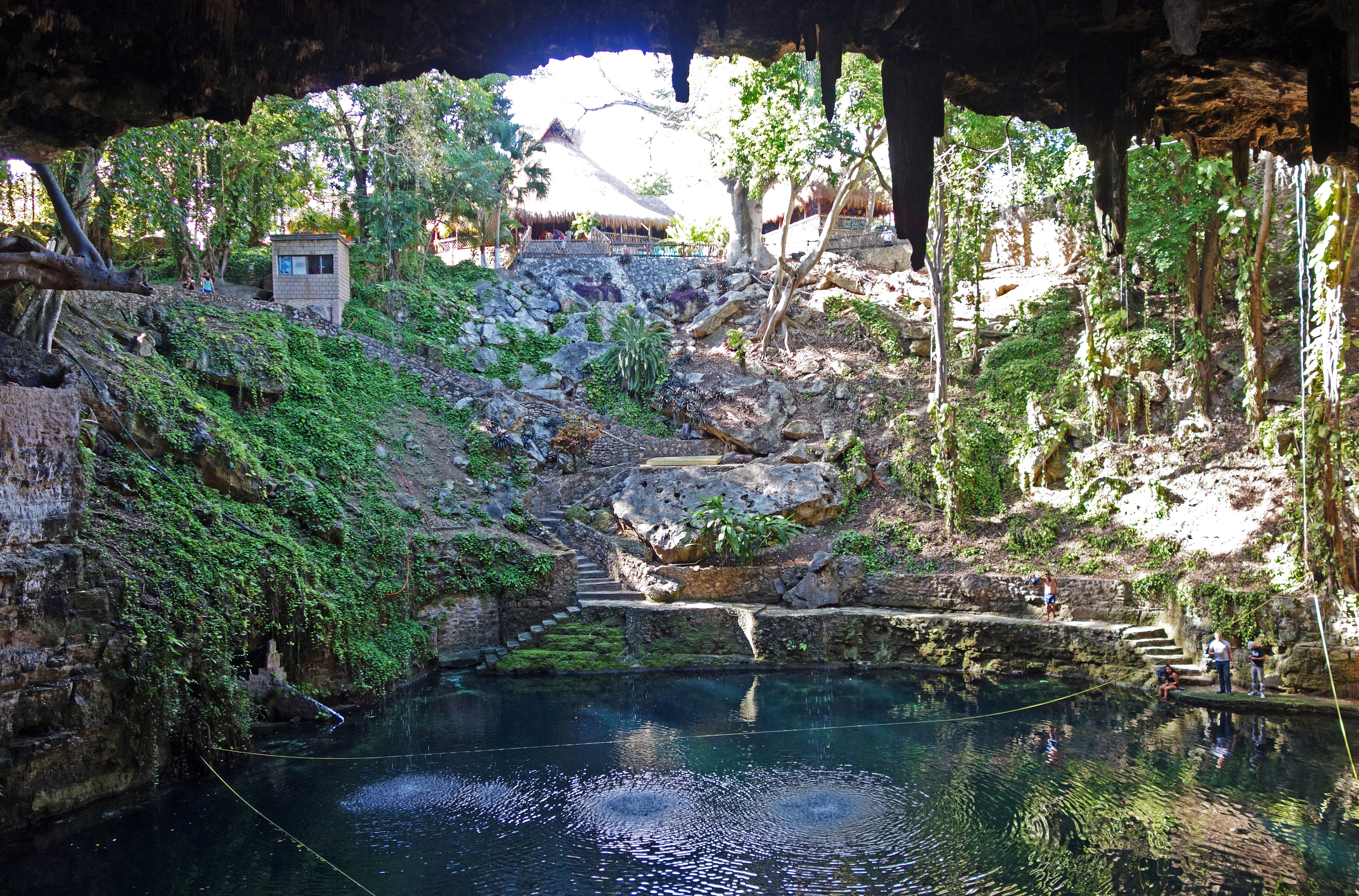 Zací Cenote in Valladolid, Yucatán, Mexico